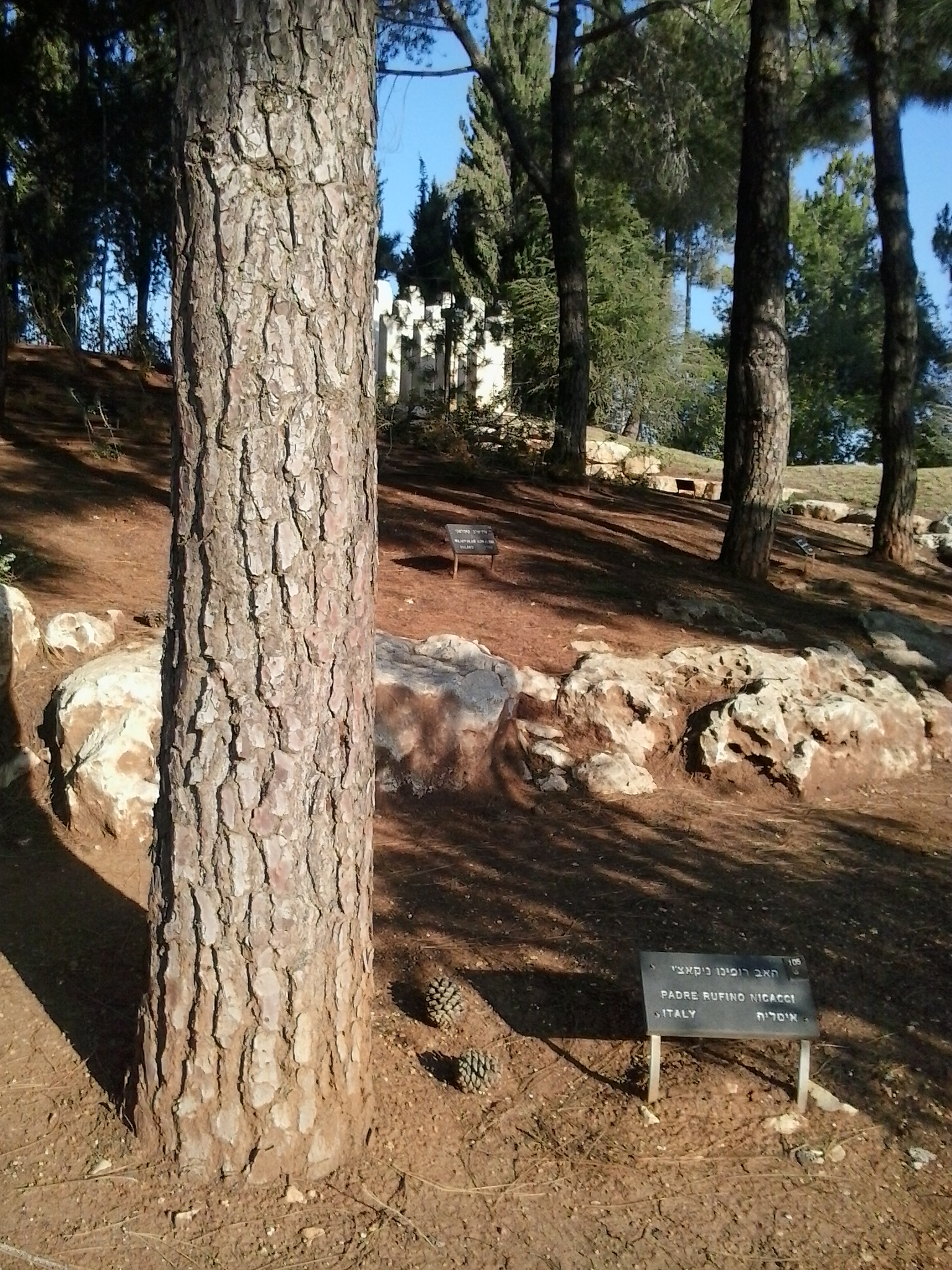 the tree in honor of Righteous among the nations Niccacci at Yad Vashem